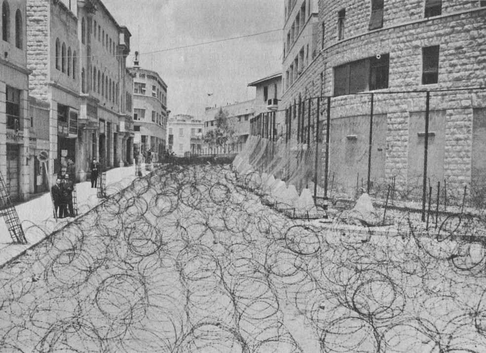 1948. Jerusalem, Princess Mary Ave. (now, ShlomTsiyon HaMalka St.) at the corner with Coresh street (aka Koresh) The British Mandatory administration used barbed wire to block the area (dubbed "Bevingrad") from both Jewish and Arab traffic.The building on the right was police HQ. It is today still called the Generali Building after the Assicurazioni Generali insurance company of Italy, which built it in 1935.